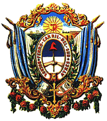 Crest of British-owned railway company Buenos Aires Great Southern Railway, with the legend "Buenos Ayres Ferrocarril del Sud".